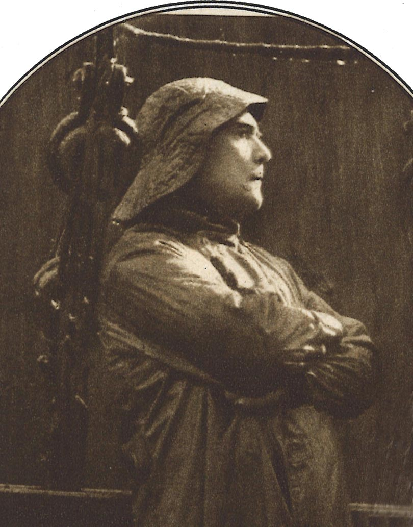 Swedish actor Anders de Wahl in the main part of the Swedish 1925 film Flygande holländaren.